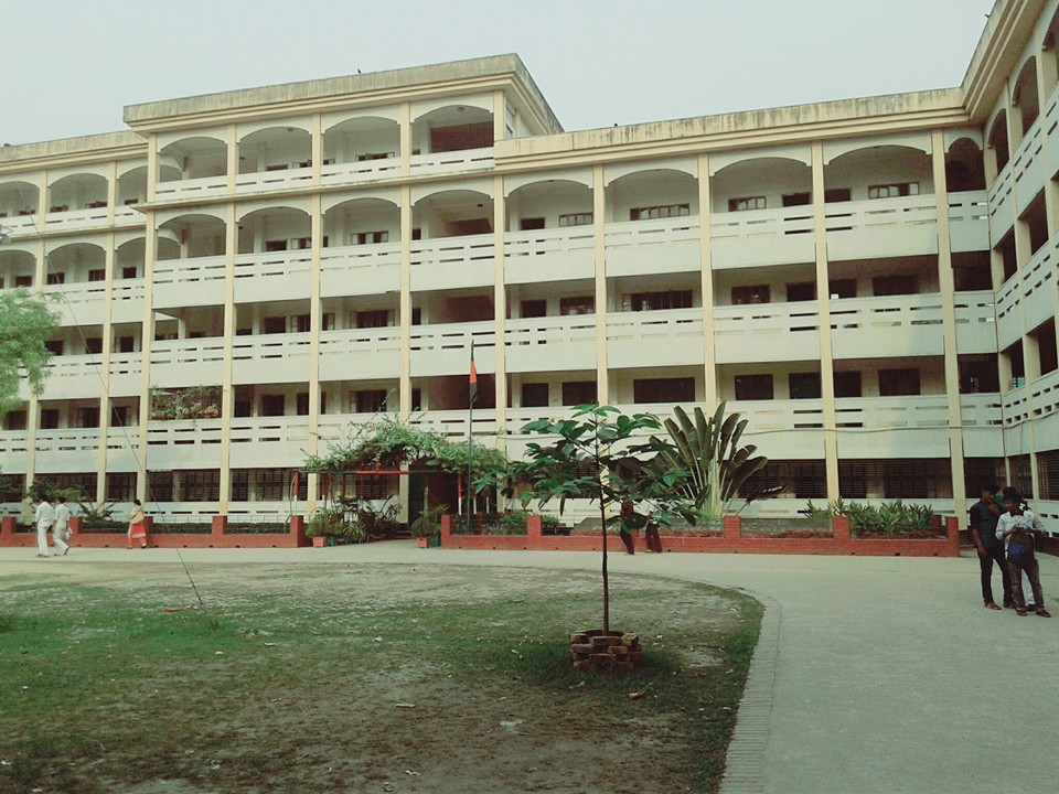 KPC building